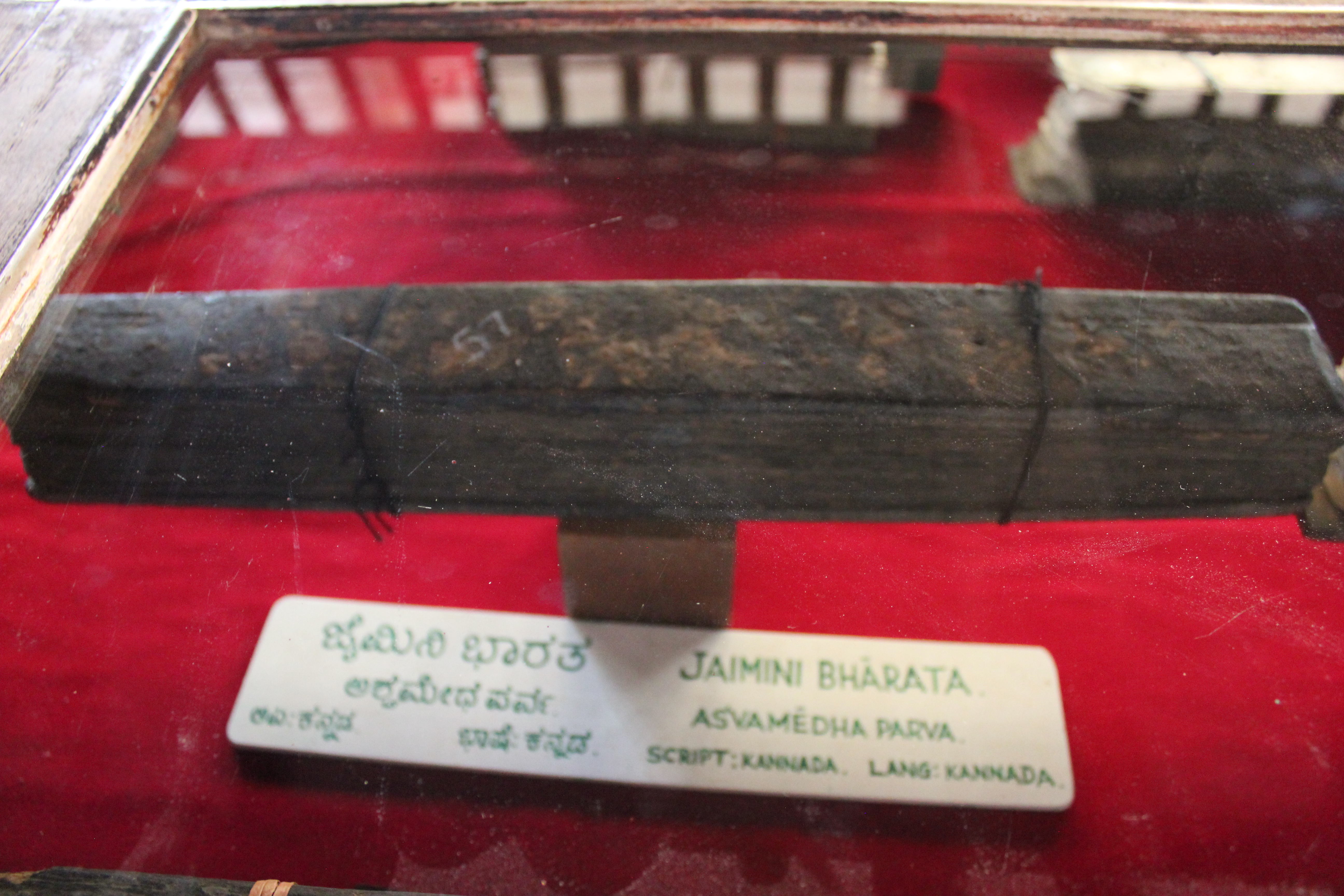 This photograph was taken at the Shivappa Nayaka palace and museum in Shivamogga city (formerly Shimoga) in Karnataka state, India. Lakshmisha (mid-16th-17th century) was the author of the popular Kannada epic poem Jaimini Bharata